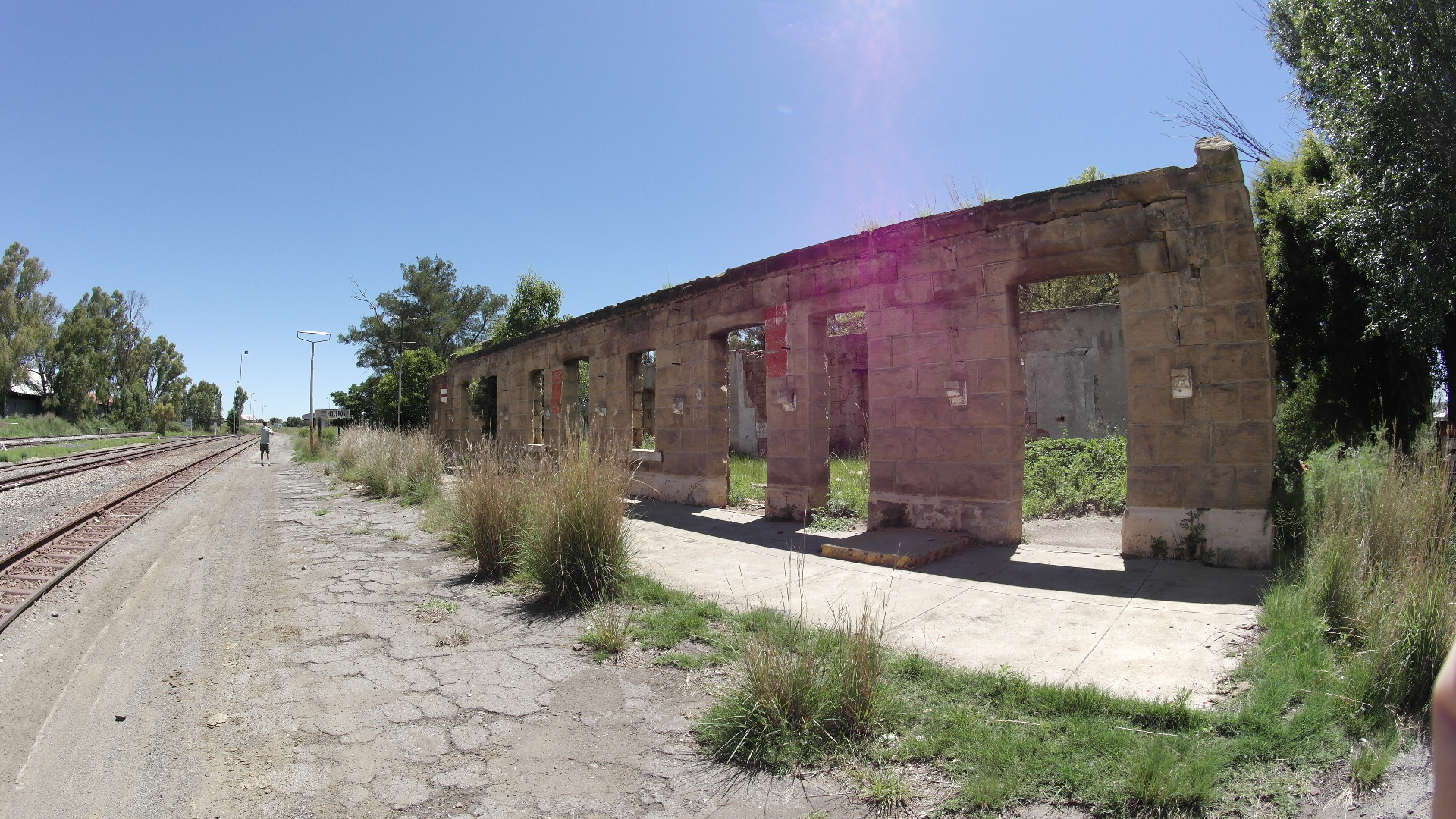 Railway station, Heilbron This media shows a South African Protected Site with SAHRA file reference 9/2/317/0004.